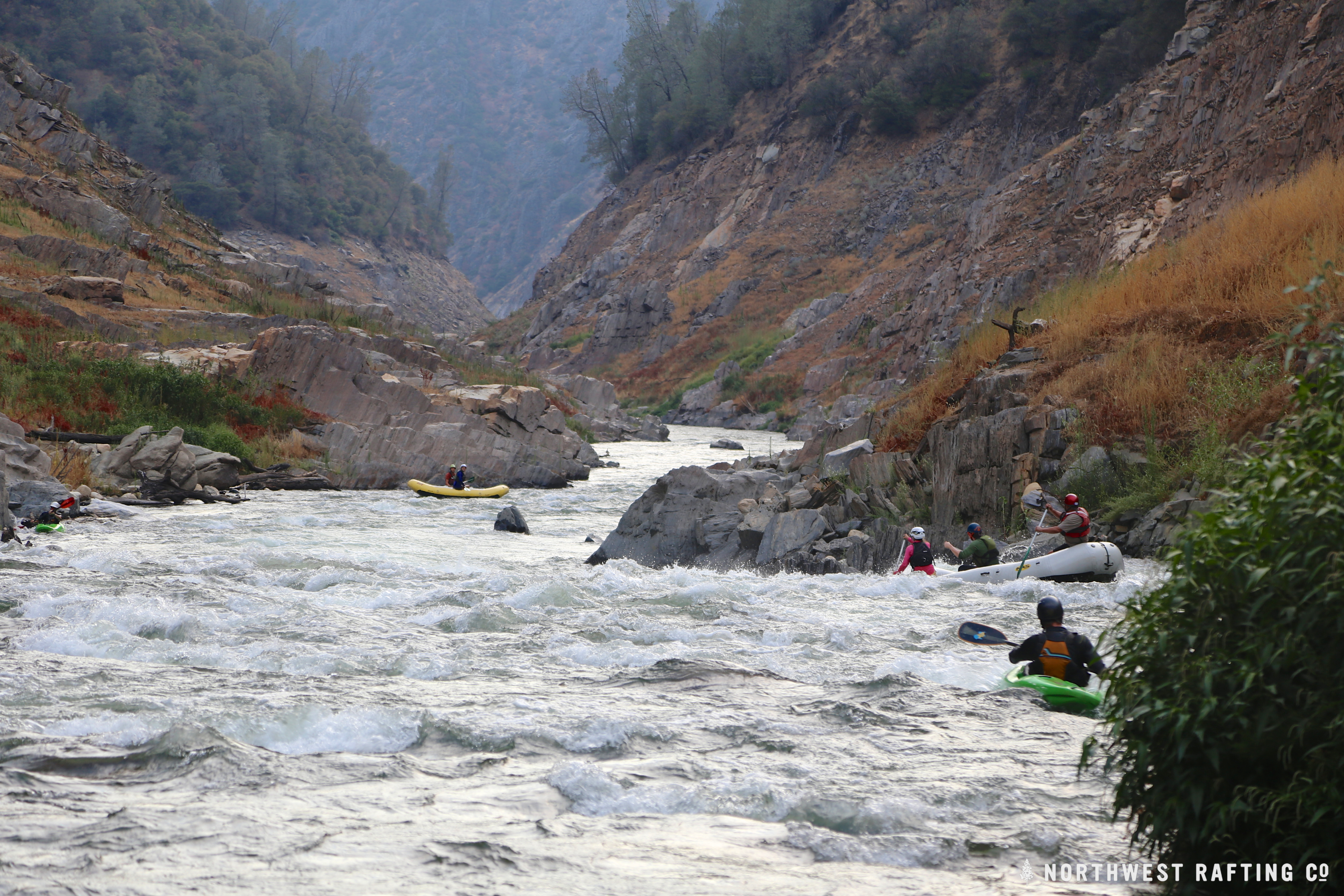 Kayakers on a part of California's Stanislaus River, normally flooded by New Melones Reservoir, during the drought in 2014.